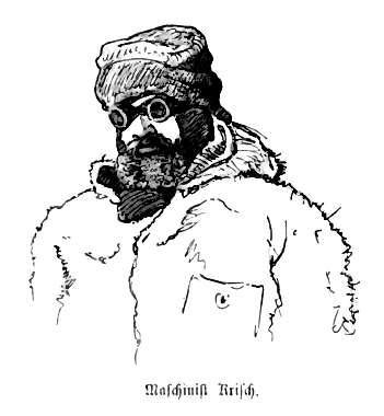 machine operator Otto Krisch, Austro-Hungarian North Pole Expedition 1872-1874 (by Julius Payer)